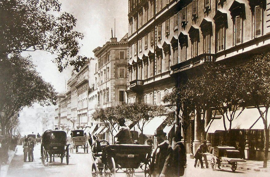 Palazzo in Via Nazionale, 230